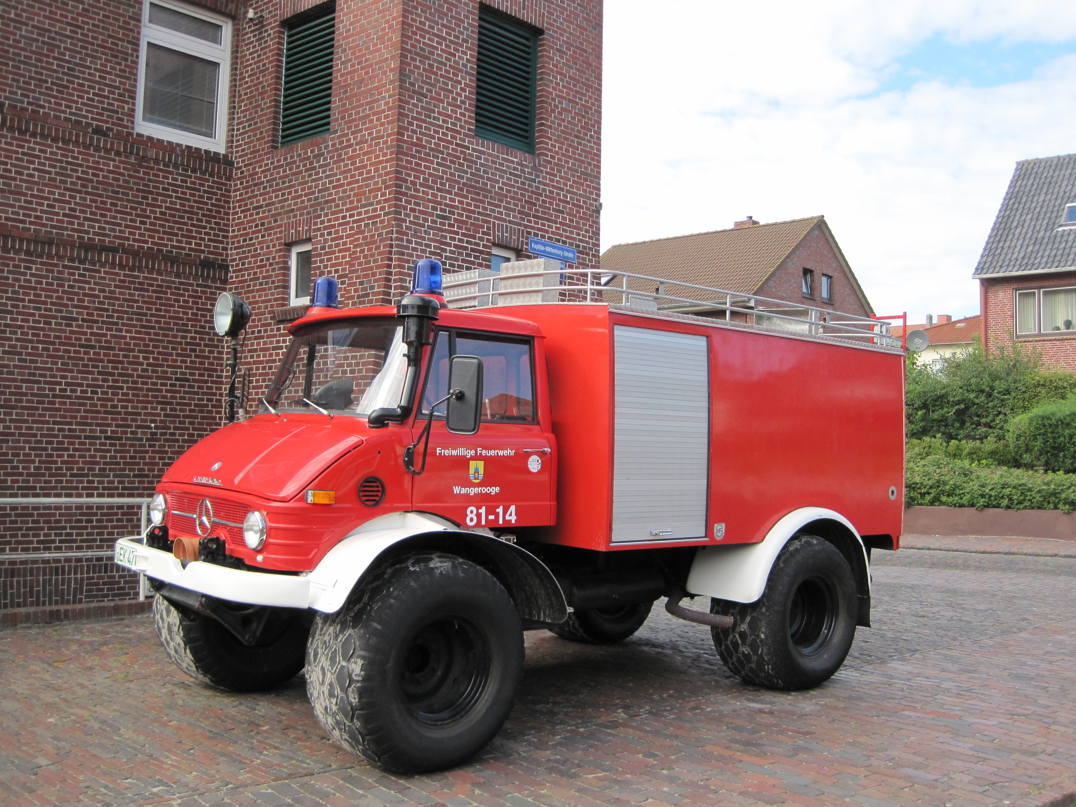 Fire engine TLF 8, Wangerooge, Germany. check usage